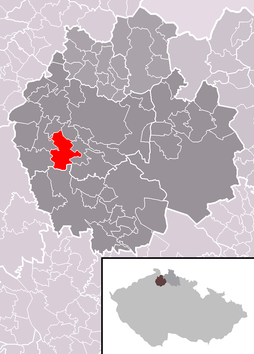 Location of Holany market town within Česká Lípa District and administrative area of Česká Lípa as a Municipality with Extended Competence.